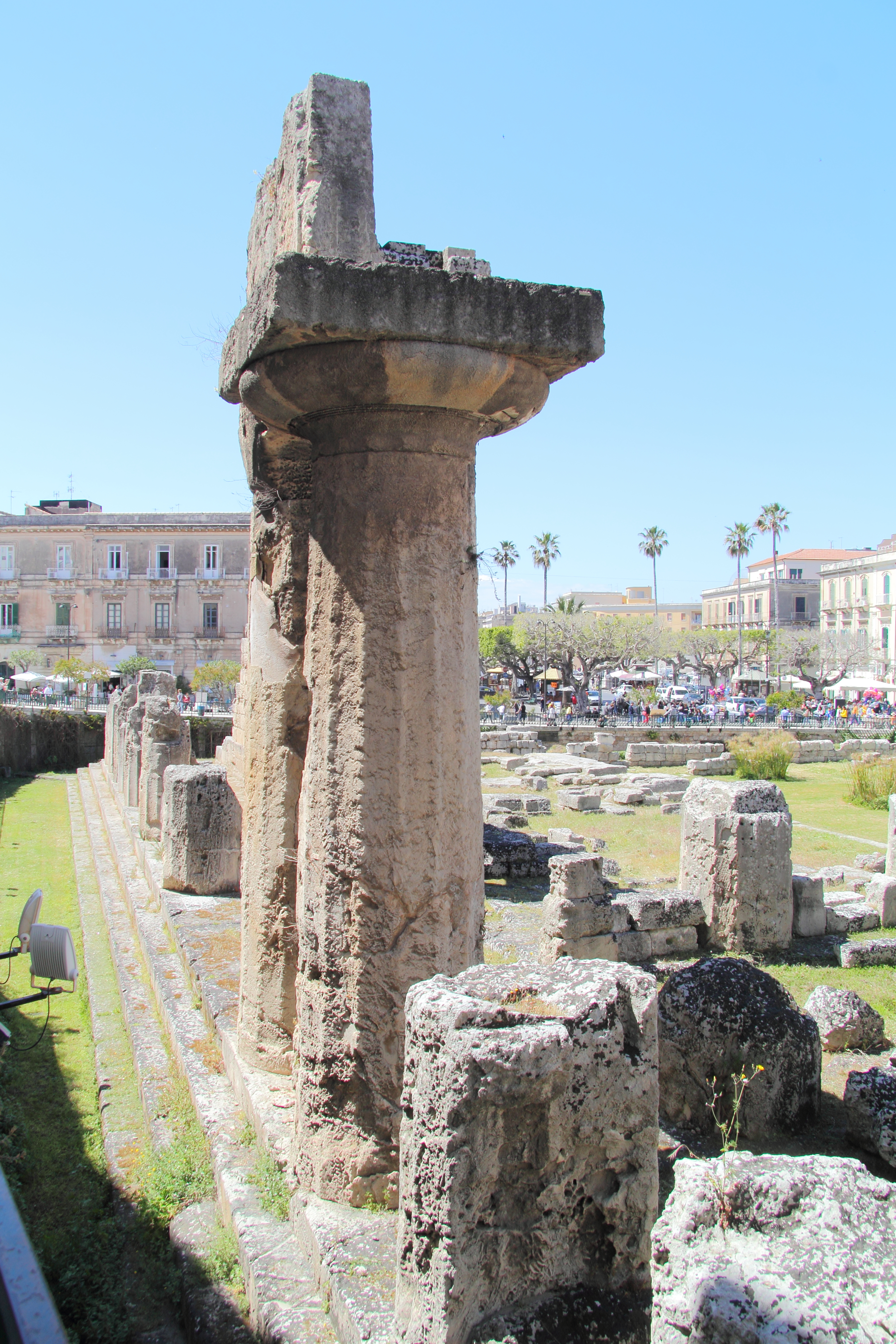 Italy: Syracuse on Sicily, old city on Ortygia island, Temple of Apollo (Syracuse)